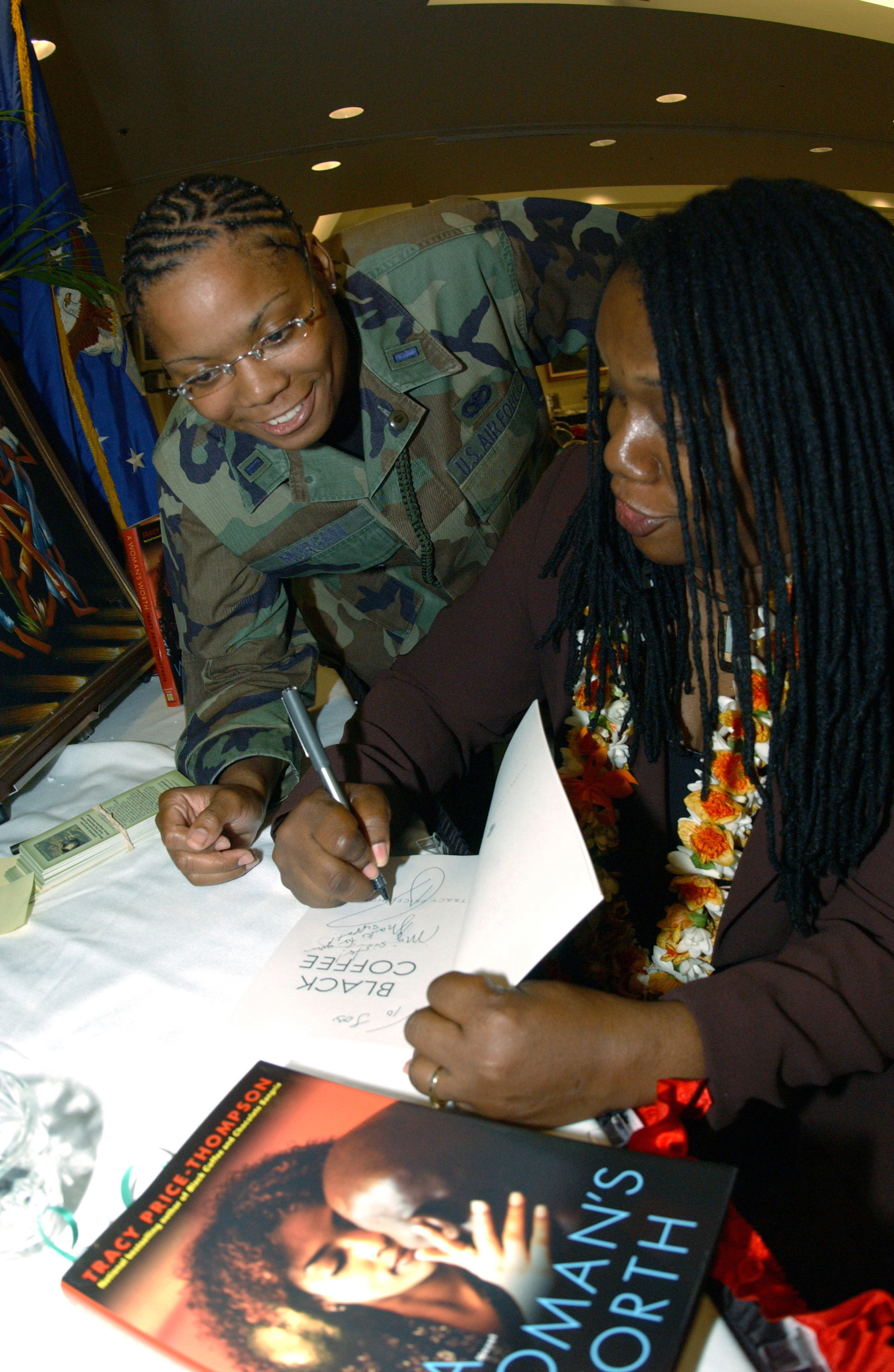 Author Tracy Price-Thompson (right) signs a book for 1st Lt. Joy Morgan during during the Black History Month Luncheon at the Tradewinds Enlisted Club at Hickam Air Force Base, Hawaii, on Feb. 4, 2005. (Photo by Angela Elbern)